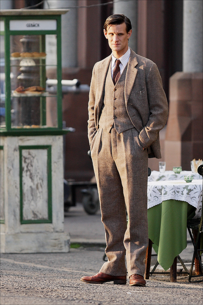 Matt Smith, the current Dr Who, in Belfast for the making of a new film, "Christopher And His Kind". The film traces the formative years of Christopher Isherwood, an aspiring writer escaping repressed English society for hedonistic, politically unstable Berlin in the 1930s. Despite being unable to speak a word of German, “Ishyvoo” discovers the decadent Weimar cabaret scene and becomes intoxicated by the city’s thriving gay subculture. Soon heart-broken by a doomed gay affair, he sets out to discover himself – and the writing voice of his classic 1930s novels.